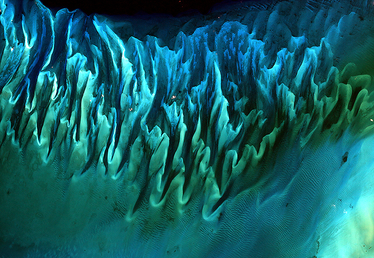 NASA image acquired January 17, 2001 Though the above image may resemble a new age painting straight out of an art gallery in Venice Beach, California, it is in fact a satellite image of the sands and seaweed in the Bahamas. The image was taken by the Enhanced Thematic Mapper plus (ETM+) instrument aboard the Landsat 7 satellite. Tides and ocean currents in the Bahamas sculpted the sand and seaweed beds into these multicolored, fluted patterns in much the same way that winds sculpted the vast sand dunes in the Sahara Desert. Image courtesy Serge Andrefouet, University of South Florida Instrument: Landsat 7 - ETM+ Credit: NASA/GSFC/Landsat NASA Goddard Space Flight Center enables NASA’s mission through four scientific endeavors: Earth Science, Heliophysics, Solar System Exploration, and Astrophysics. Goddard plays a leading role in NASA’s accomplishments by contributing compelling scientific knowledge to advance the Agency’s mission. Follow us on Twitter Join us on Facebook